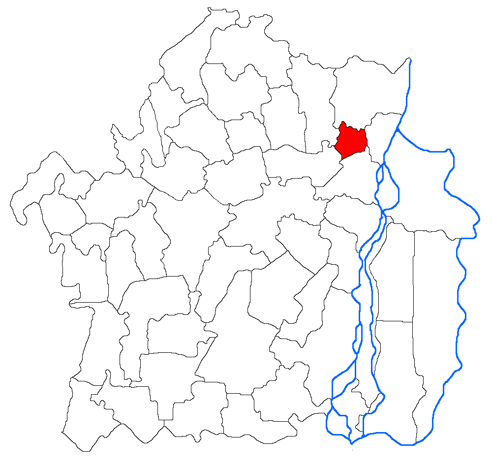 Limits of Commune of Cazasu in Braila County